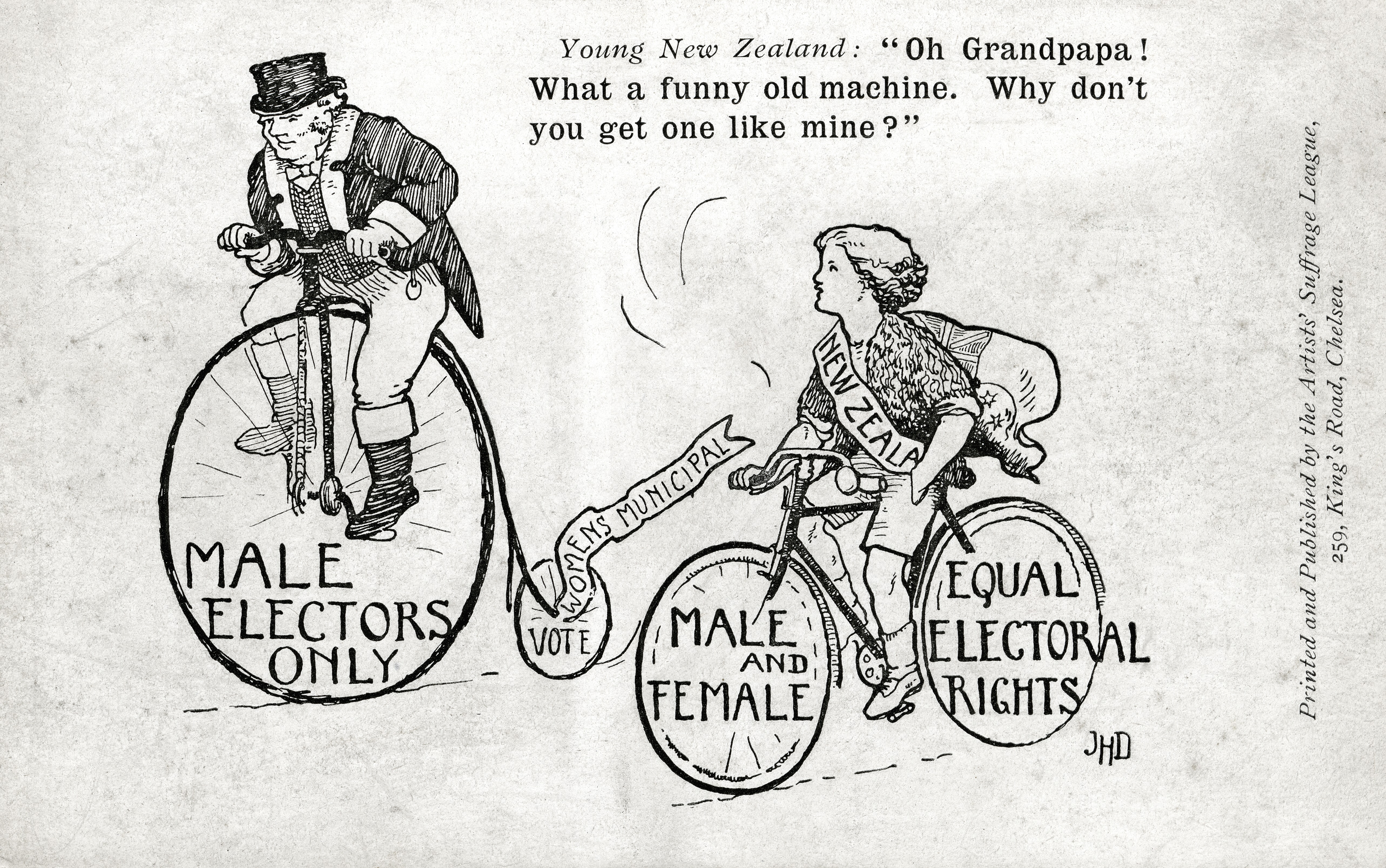 TWL.2000.58Postcard, printed, cardboard, black text and image, white ground, Artists' Suffrage League illustration depicting an old man riding a penny farthing bicycle with the inscription: 'MALE ELECTORS ONLY, WOMEN'S MUNICIPAL VOTE', on the wheel, young boy riding on a modern bicycle beside him with the inscription: 'NEW ZEALAND, MALE AND FEMALE EQUAL ELECTORIAL RIGHTS', on his wheels and a sash, printed inscription front: 'Young New Zealand: 'Oh Grandpapa! What a funny old machine. Why don't you get one like mine?', Printed and Published by the Artists Suffrage League, 259 King's Road, Chelsea'.